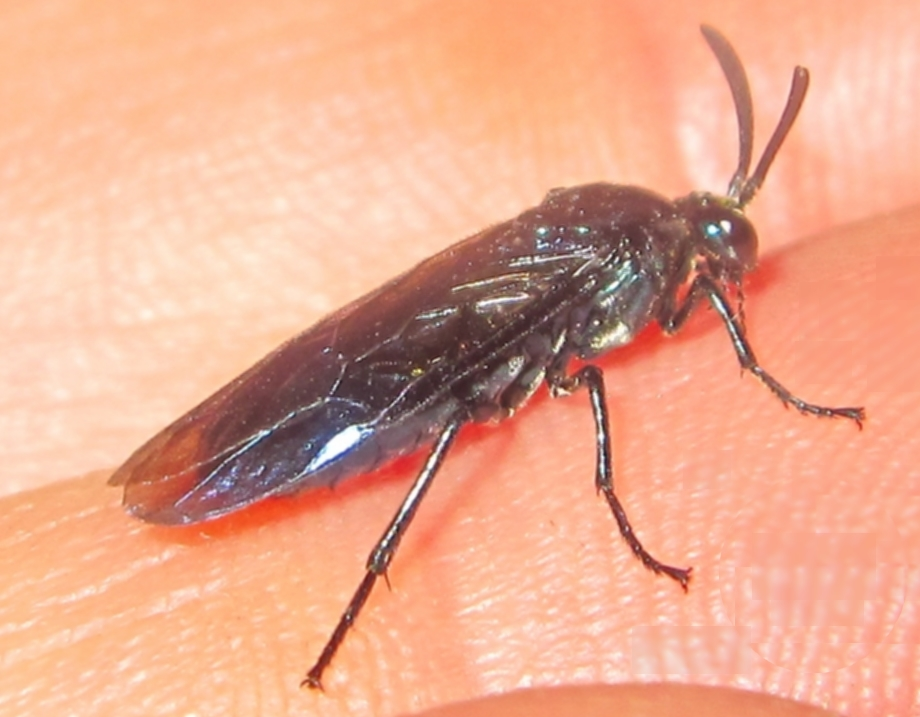 Cibdela janthina (Hymenoptera-Tenthredinidae)